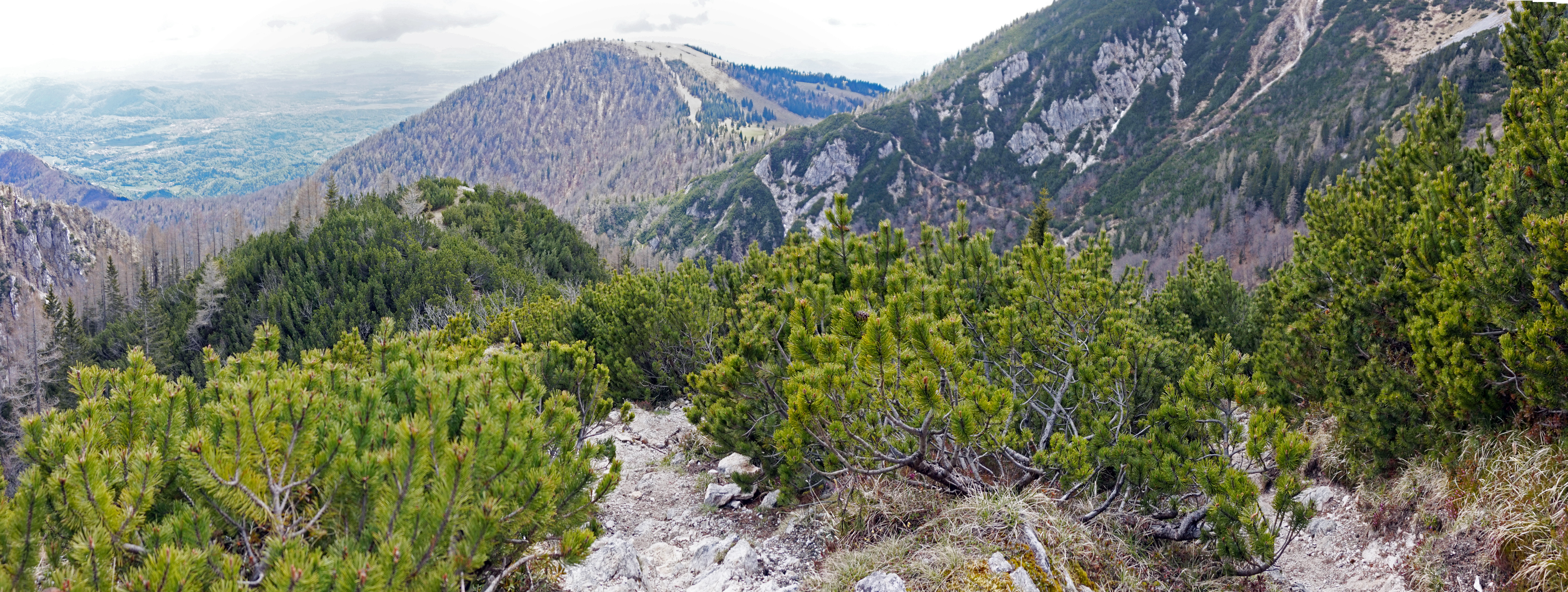 Coniferous trees in Slovenia.This photograph was taken with a Sony ILCE-5000